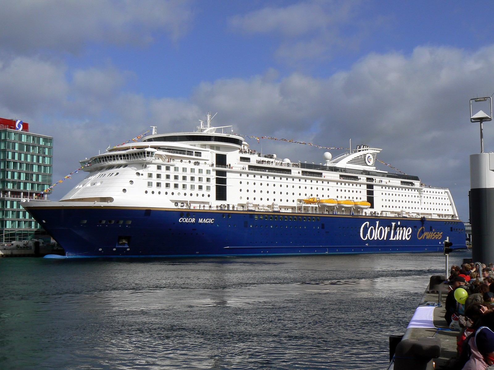 Die Kreuzfahrtfähre M/S Color Magic im Kieler Hafen an ihrem Liegeplatz zur Taufe.